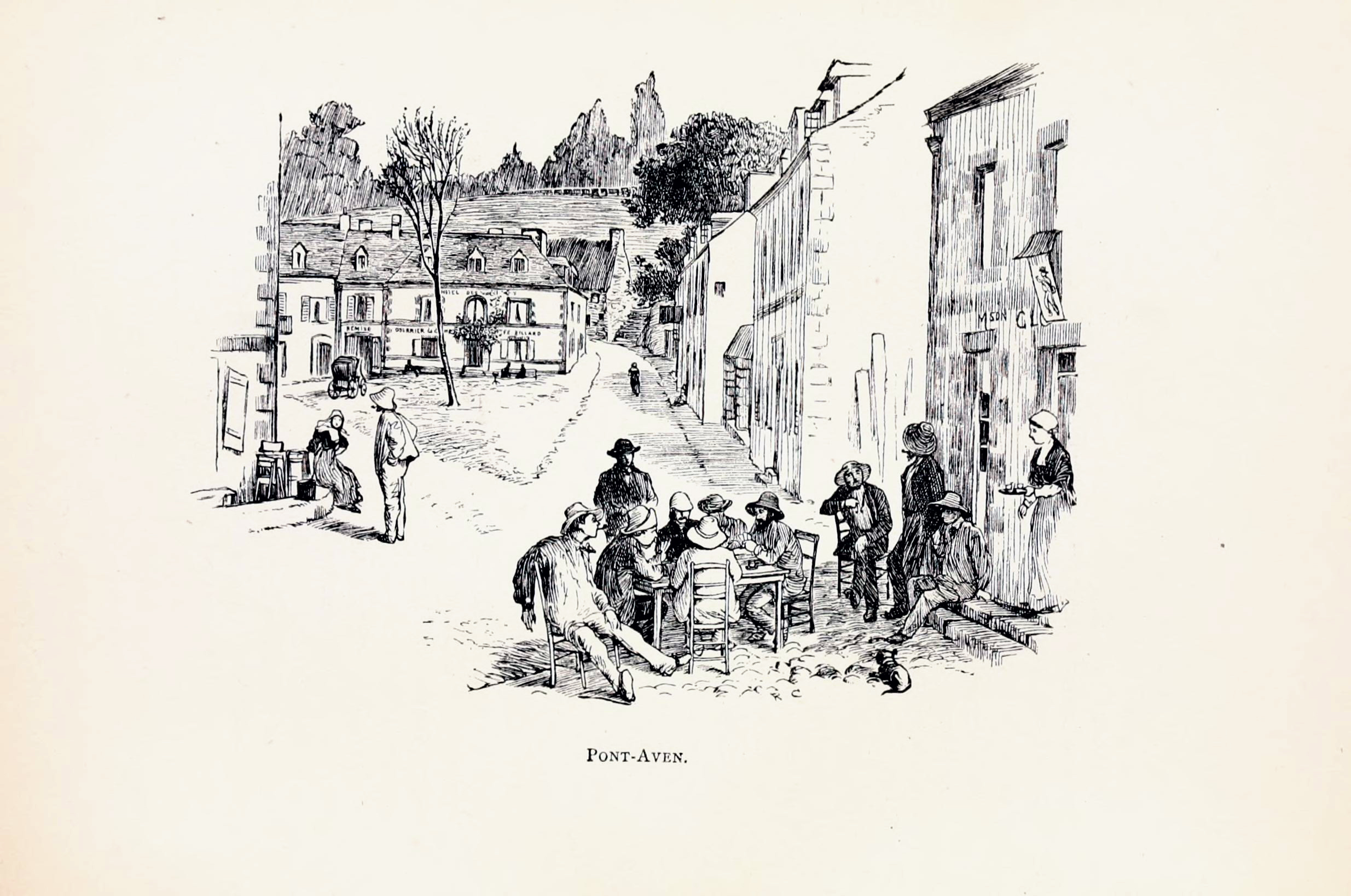 Breton Folk: an Artistic Tour in Brittany, by Henry Blackburn (1880) was one of the travel books which Randolph Caldecott illustrated. Randolph accompanied Henry Blackburn on three journeys to Brittany